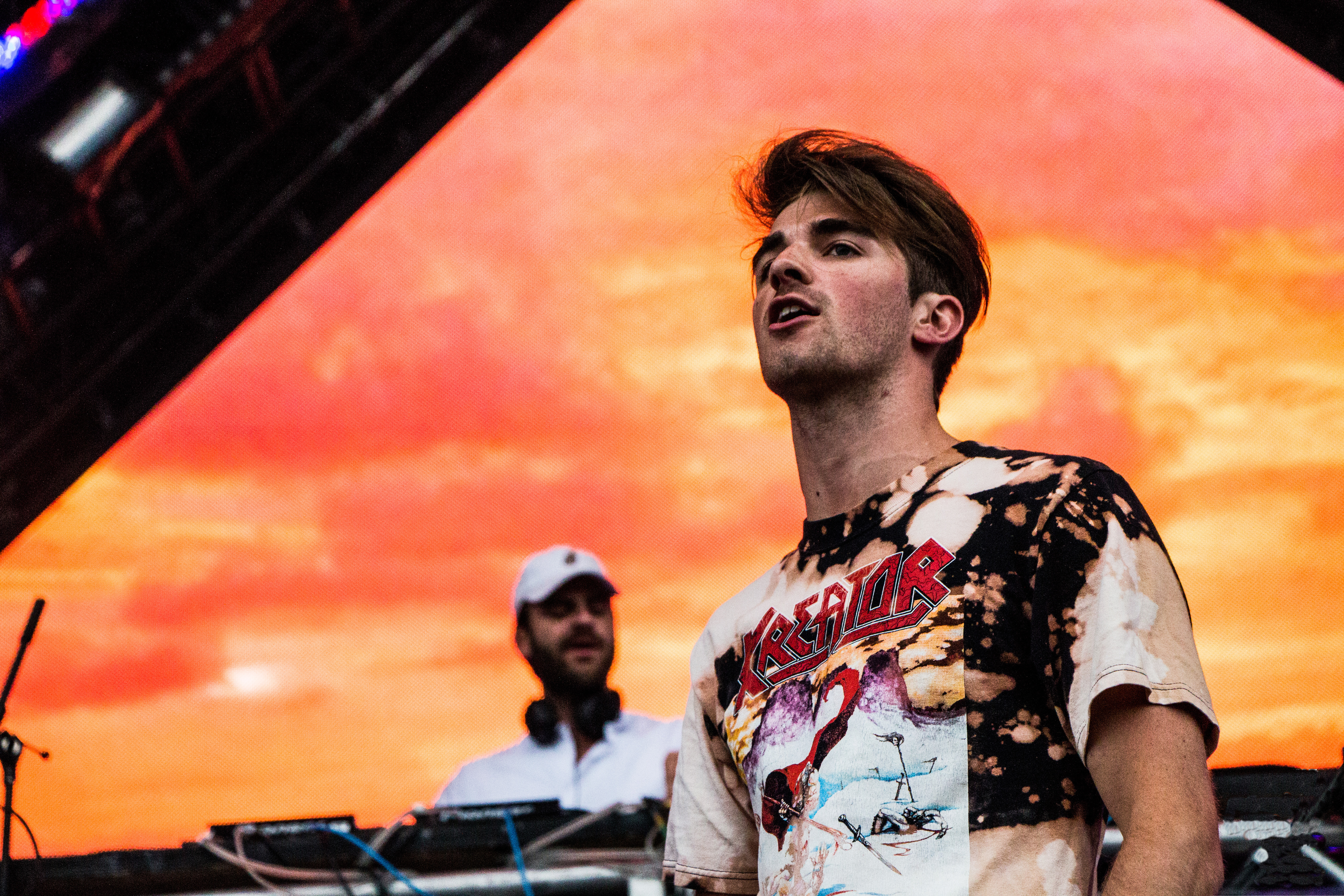 The Chainsmokers playing live at VELD 2016